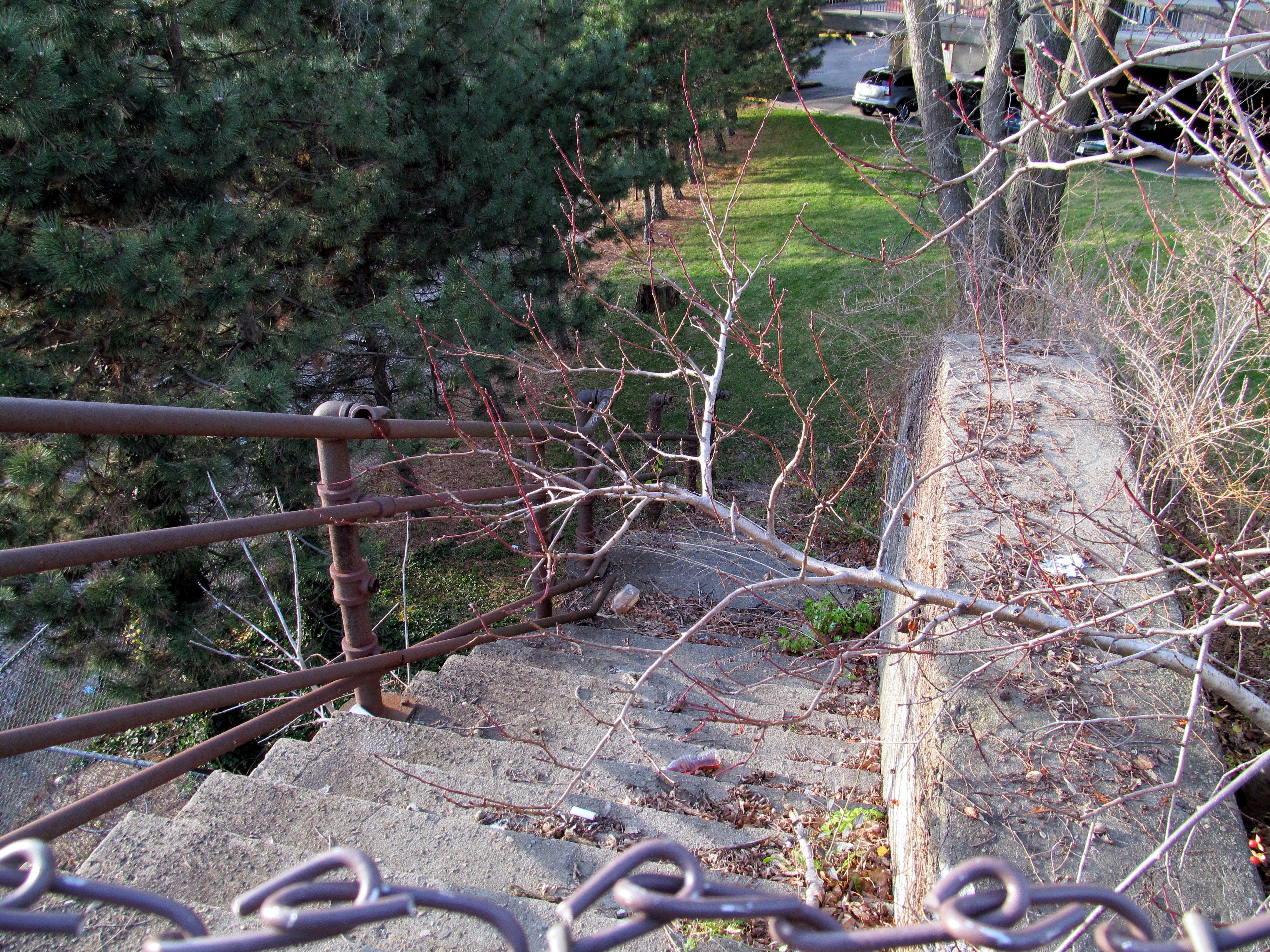 Steps leading from Webster Avenue down to the long-gone rail station at Union Square